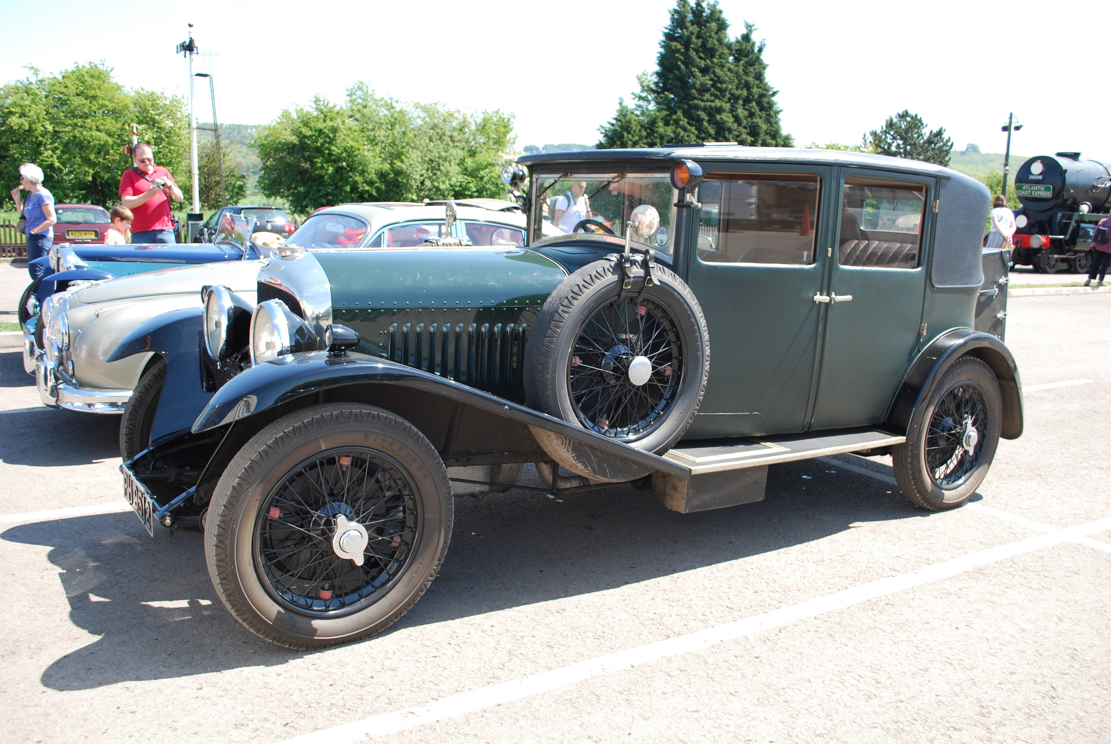 Bentley Gurney Nutting saloon at Toddington Railway Gala, May 2013 Chassis MF3155 Engine MF3155 Reg PH 9512 delivered May 1928